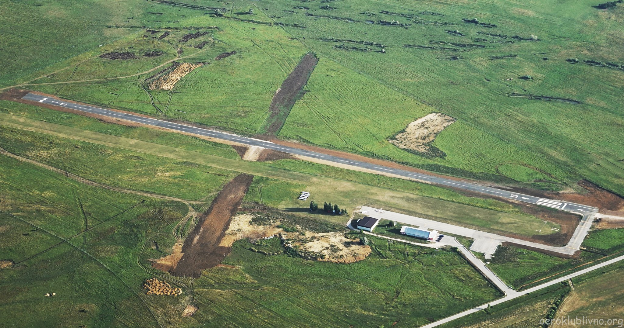 Livno airfield